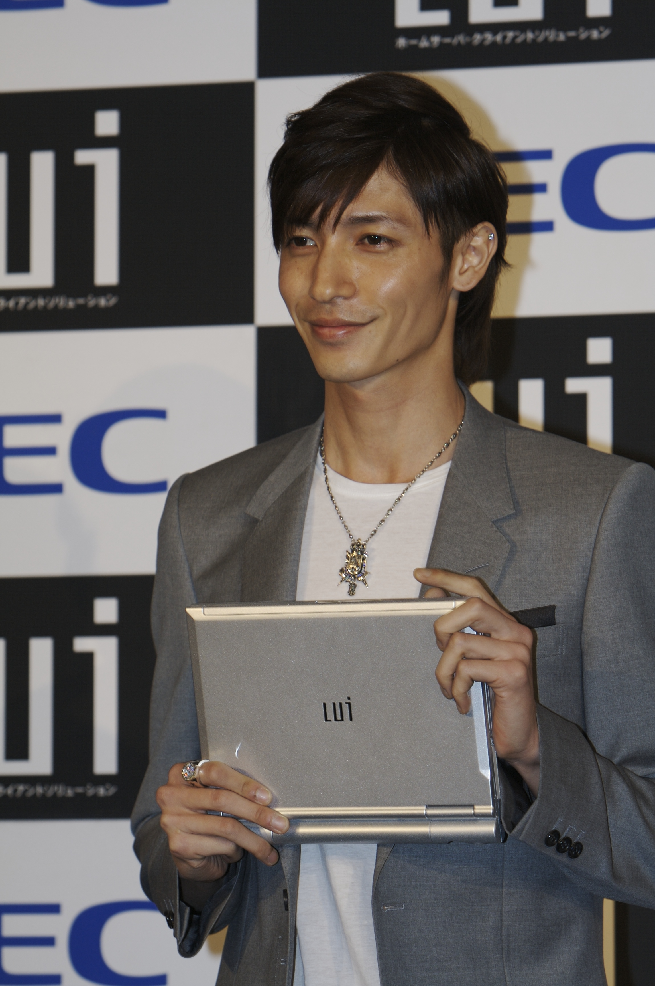 Hiroshi Tamaki at NEC Lui event